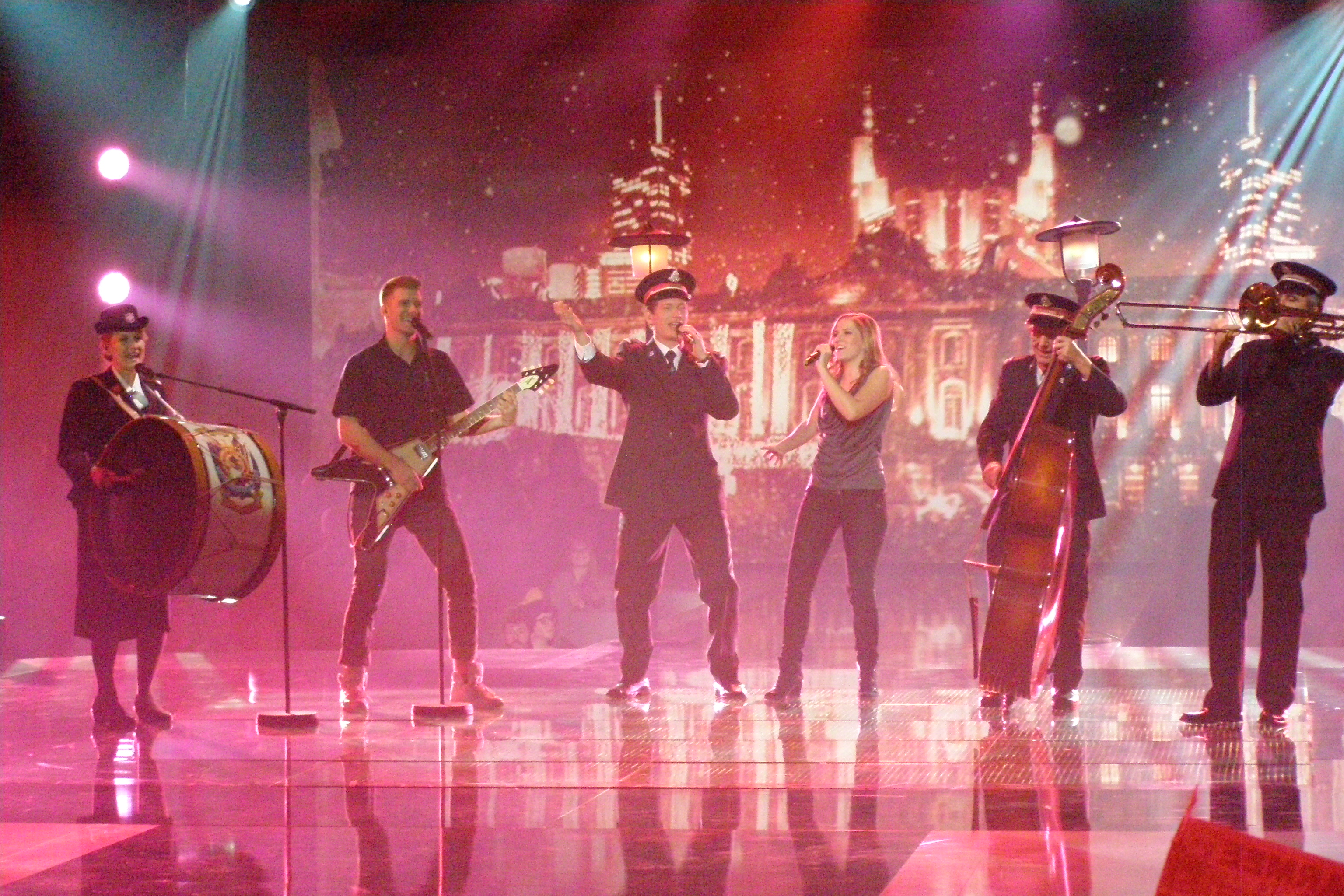 The winners of the national final the Eurovision Song Contest in Switzerland